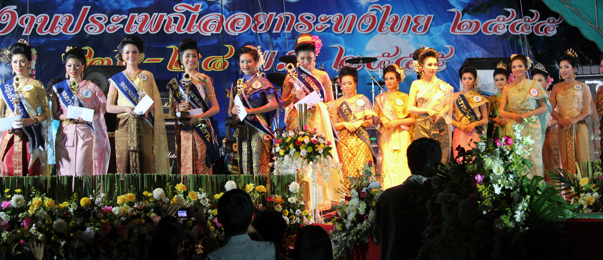 Noppamas Queen beauty contest, Loy Krathong 2012 at Chaweng, Koh Samui